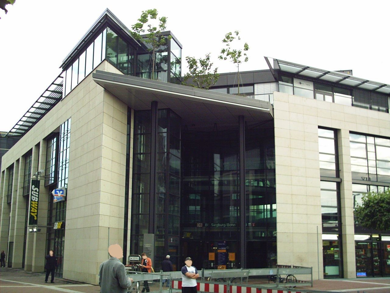 Siegburg/Bonn station, Siegburg, Germany check usage